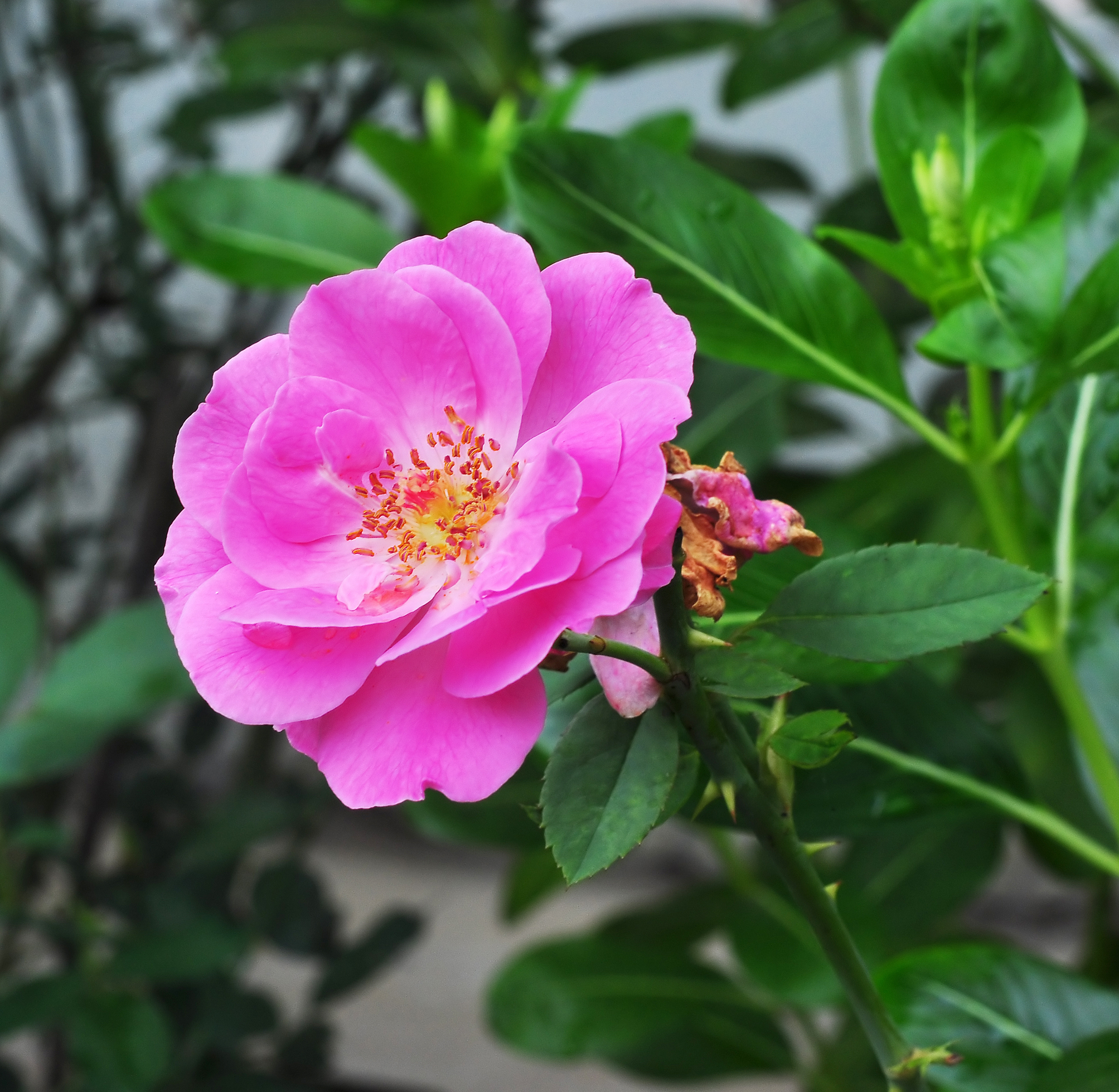 Rosa indica